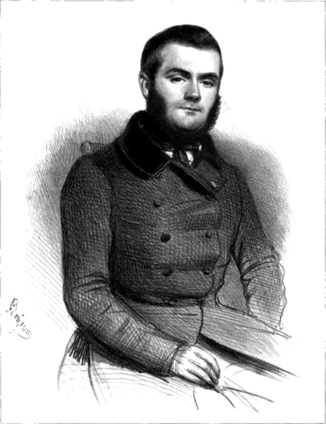 Drawing of Adolphe Granier de Cassagnac (1806-1880), French journalist, historian, critique, and politician.